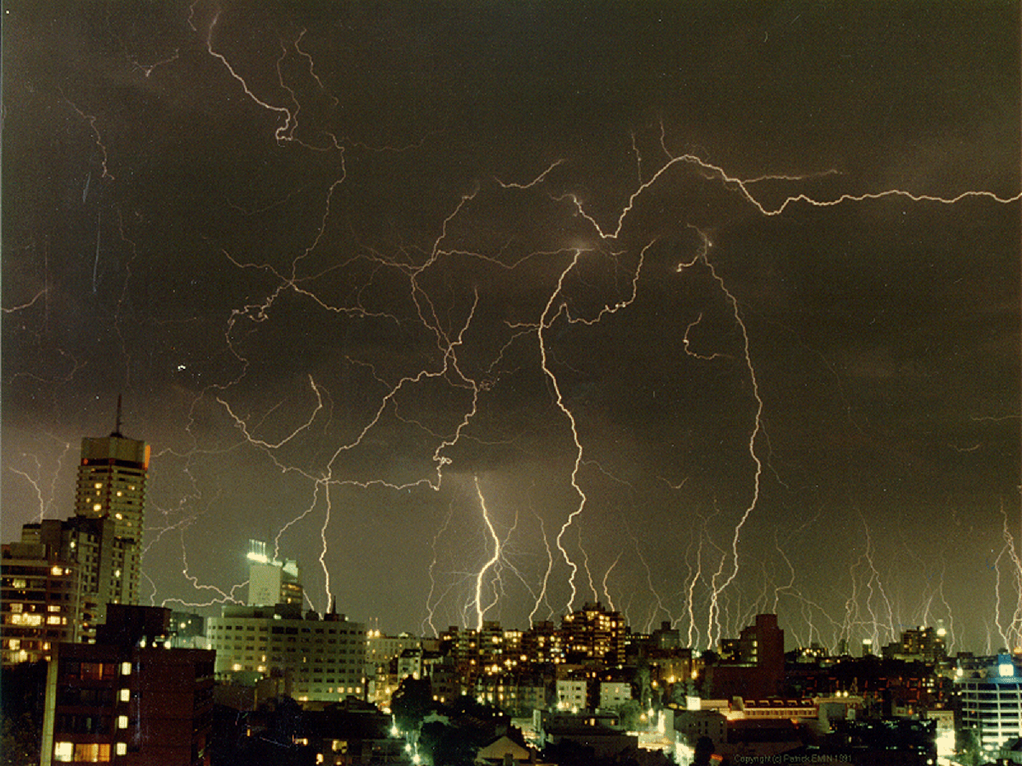 Severe storm in Sydney in 1991, picture taken with a Ricoh Mirai camera, 20 minutes exposure from Potts Point, Sydney, Australia.